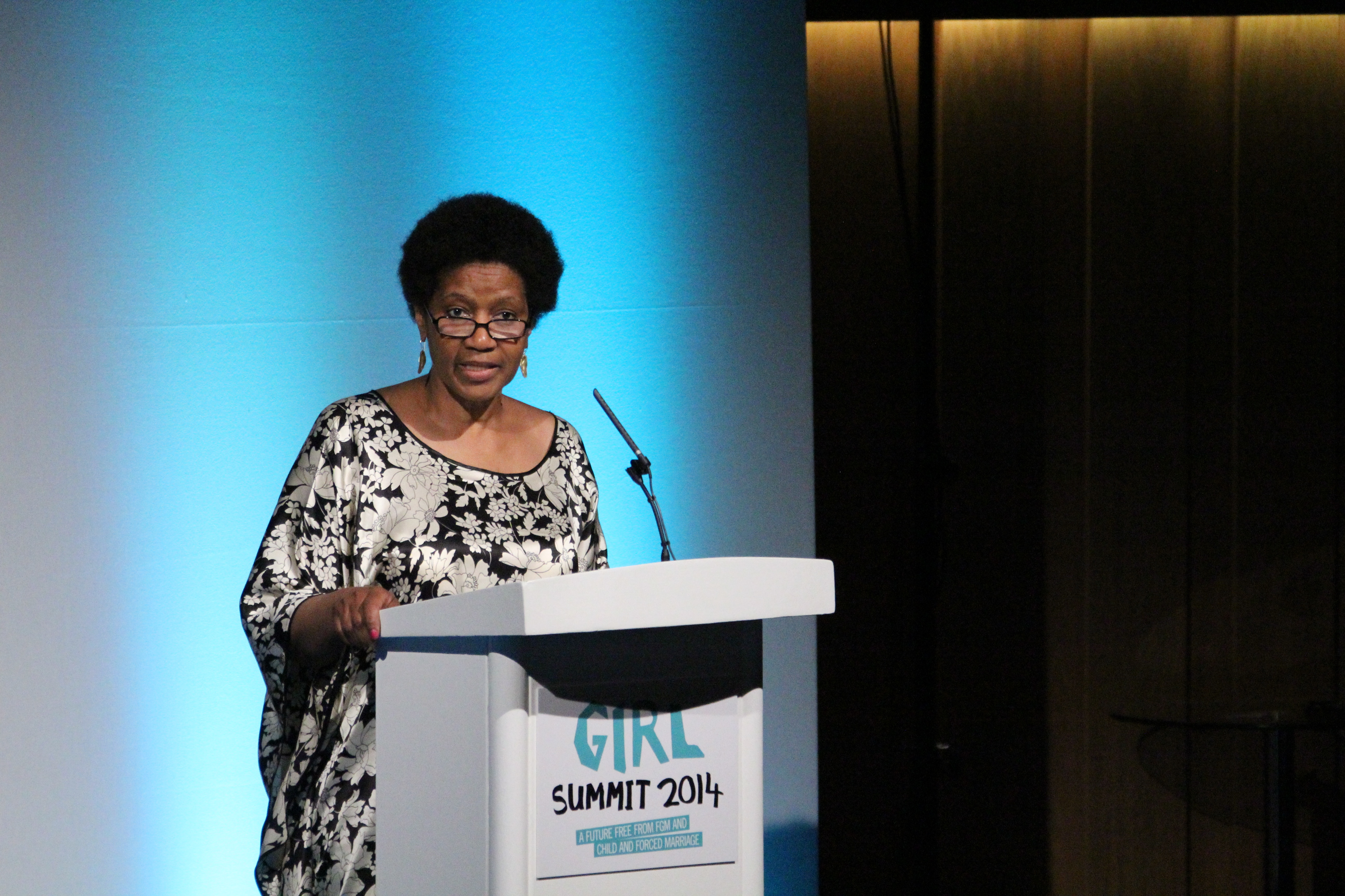 Picture: Russell Watkins/Department for International Development. Available free under the terms of Crown Copyright/Open Government License/Creative Commons - Attribution